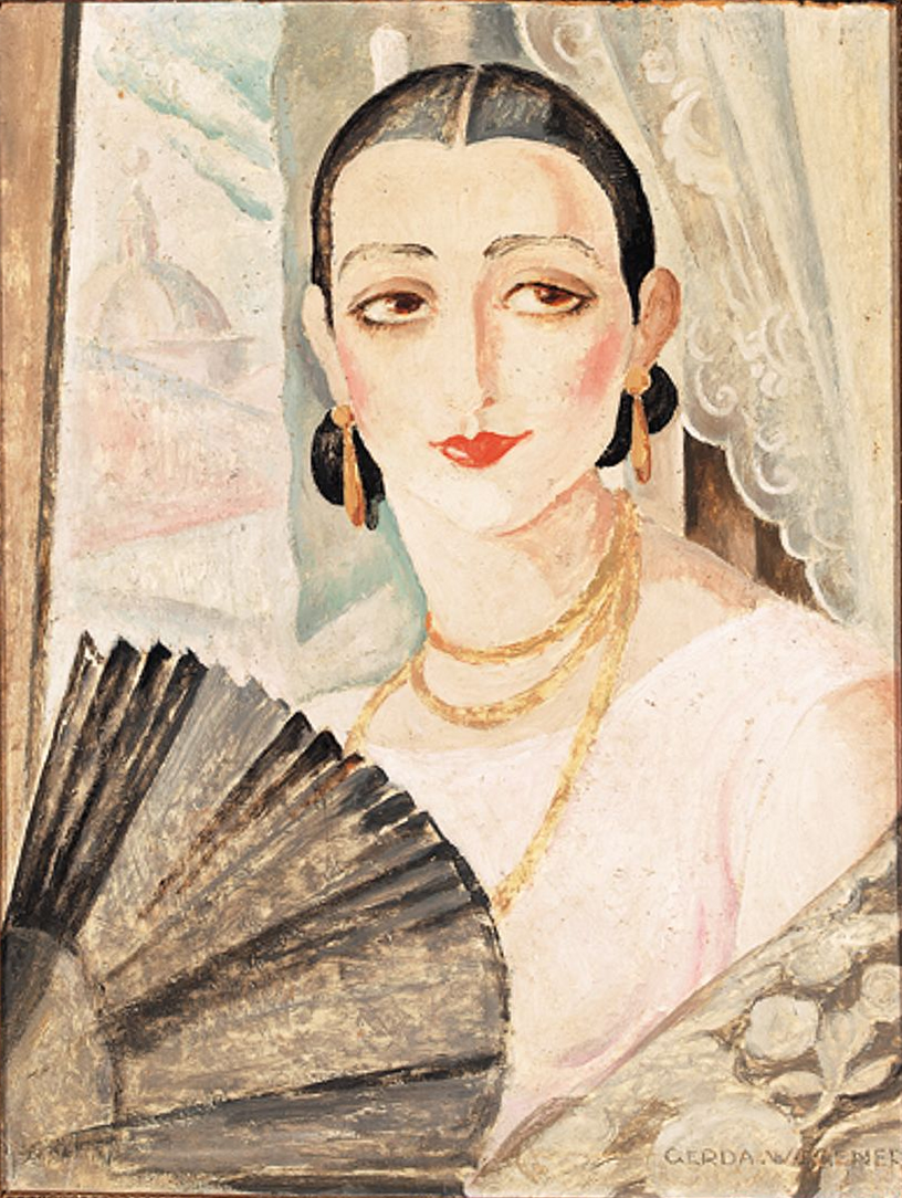 Lili Elbe was the name used by Einar Wegener, the artist's husband, when appearing as a woman.